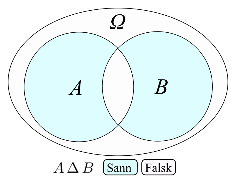 Symmetric difference